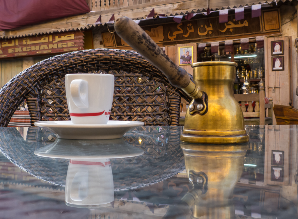 Arabic coffee at Souq Waqif in Doha, Qatar.